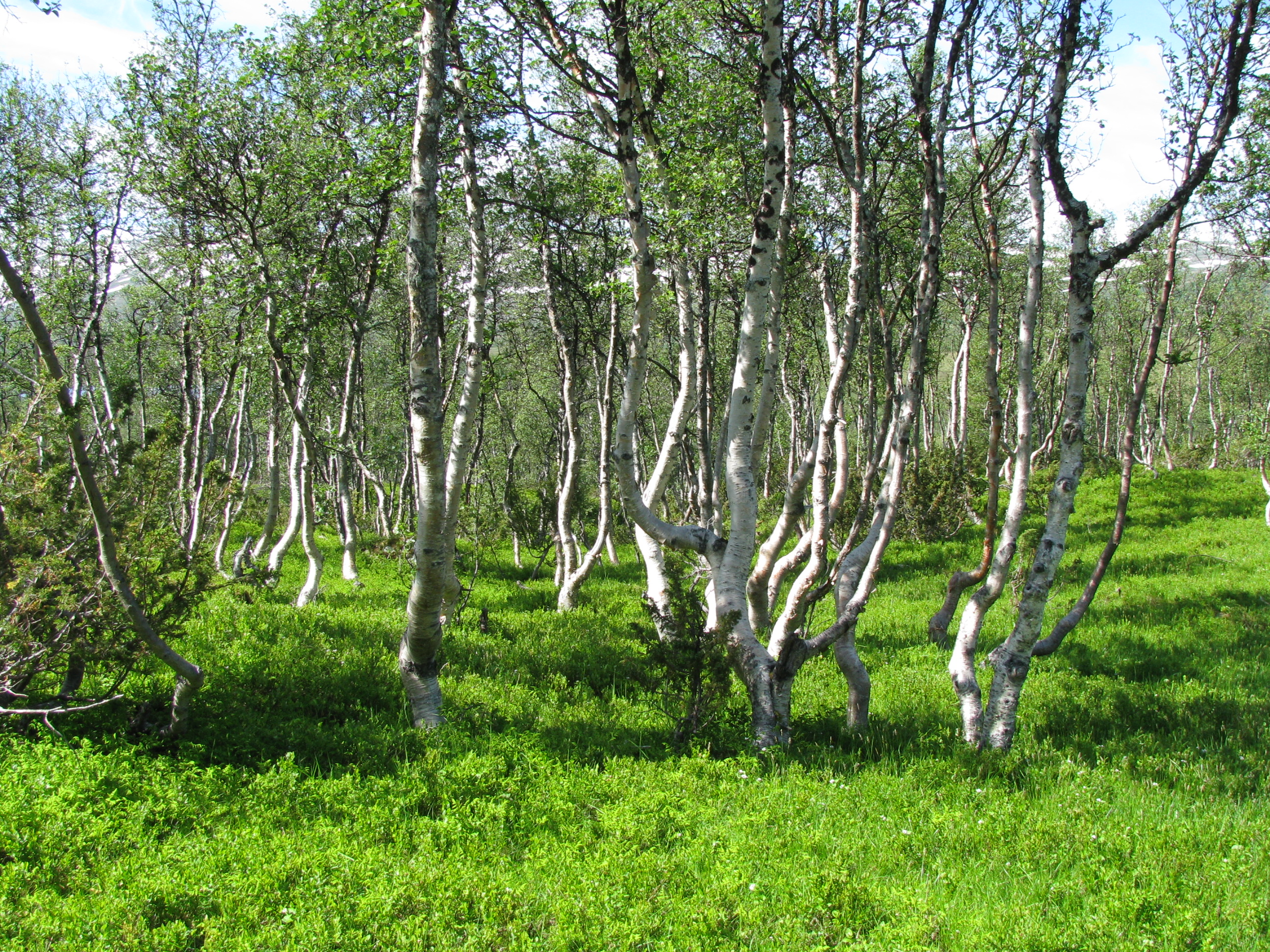 Mountain birch (Betula pubescens subsp. ssp. czerepanovii) trees reaching 4-5m tall. The ground is covered with bilberry plants, and there are some Juniperus communis. Picture taken near the path to Jøldalshytta (lodge) in Trollheimen mts, altitude approximately 750 m (2400 ft). Rennebu municipality, Sør-Trøndelag, Norway.